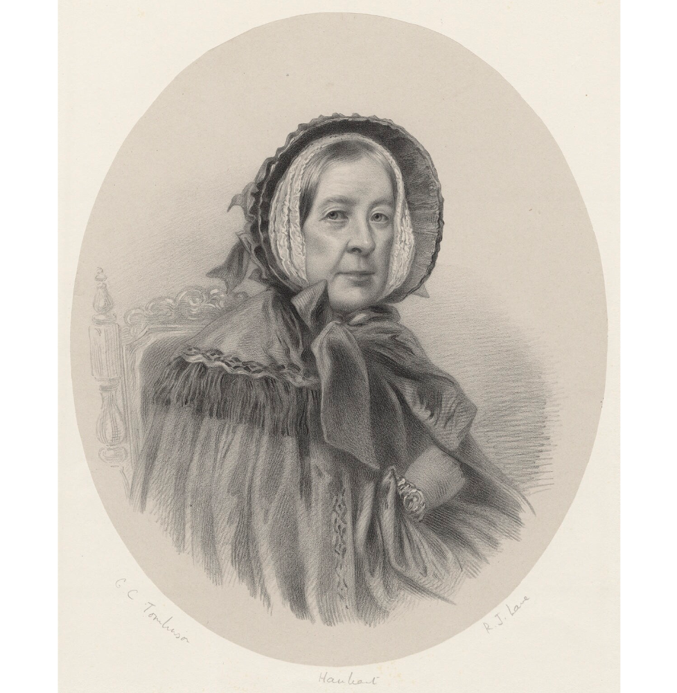 A lithograph of Harriet Leveson-Gower, Countess Granville by Richard James Lane, printed by M & N Hanhart, after George Dodgson Tomlinson